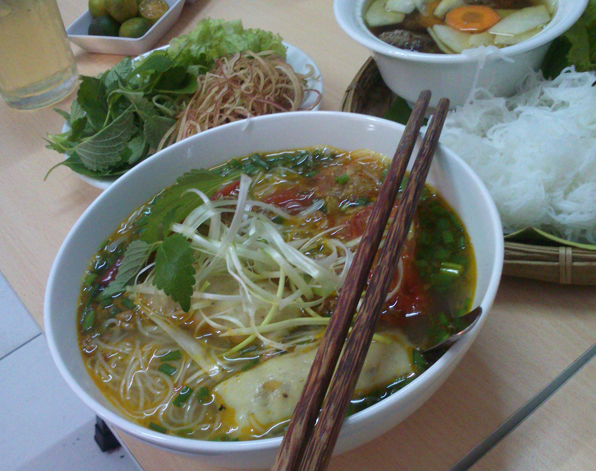 Vietnamese noodle Bun in Tomato soup